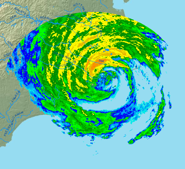 Radar image of Hurricane Irene shortly after making landfall on the Outer Banks of North Carolina. Image was taken on 2011-08-27 at 14:05 UTC (10:05 local time) from the National Weather Service radar station at Newport/Morehead, North Carolina.